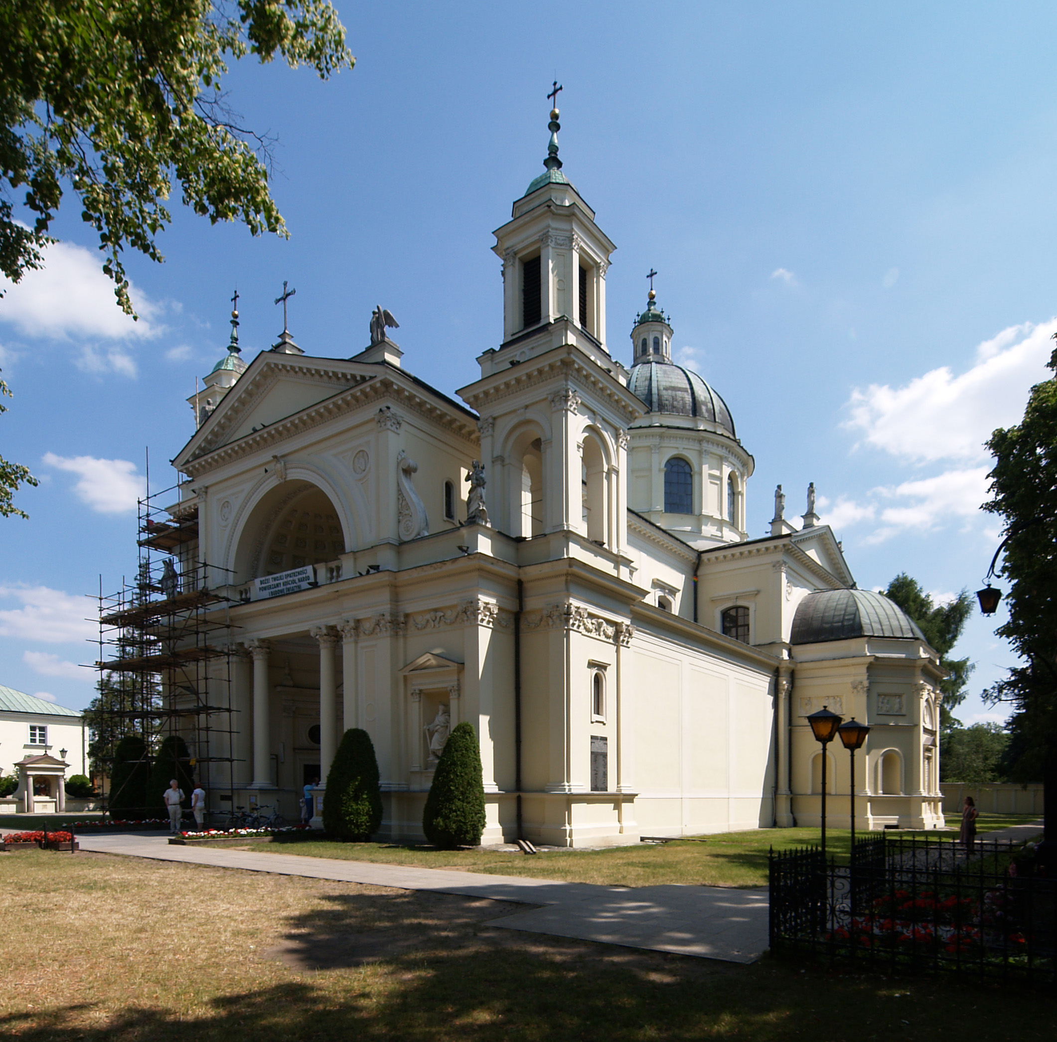 The church of St Anne near Wilanow Palace at Warsaw, Poland